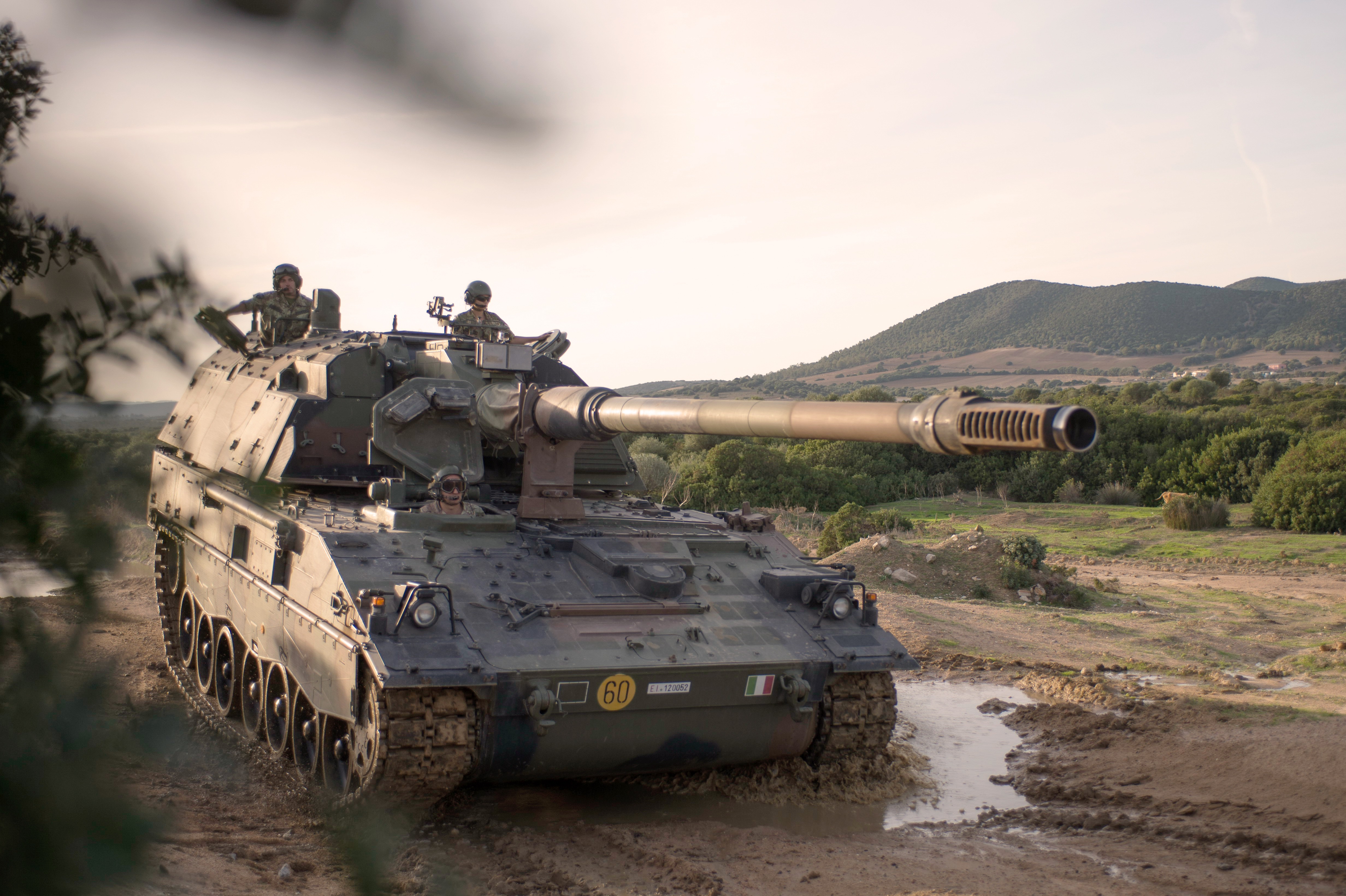 An Italian Army PzH 2000, self-propelled Howitzer on October 17, 2015 during Trident Juncture 15. - NATO Local Pao Capo Teulada Esercitazione